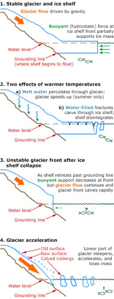 Factors affecting the flow rate of glaciers.